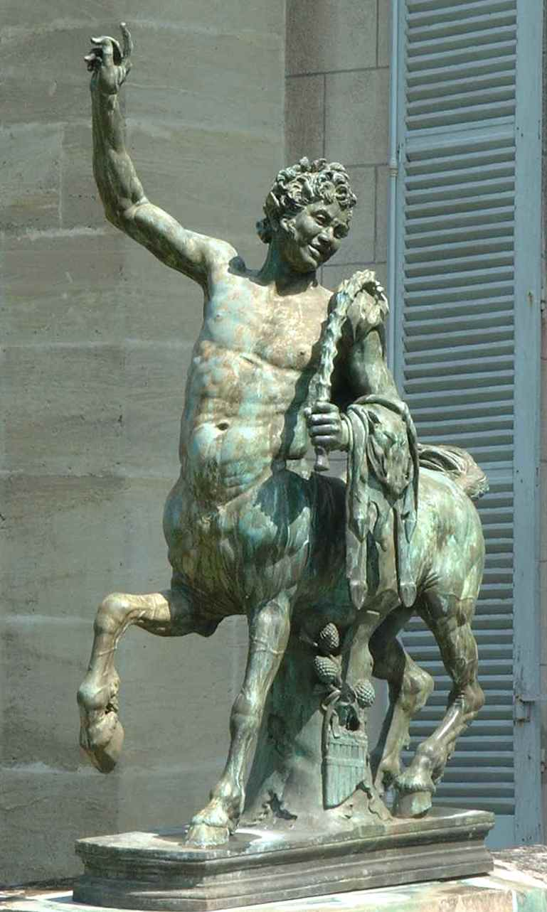 Modern bronze copy of the type of the Young Centaur, Malmaison.